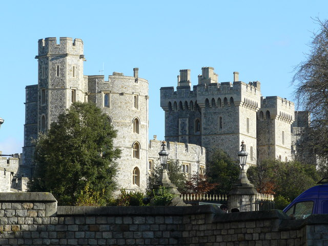 Windsor Castle - South Wing To the centre right of photo are the imposing towers of the South Wing. Photographed from Castle Hill.